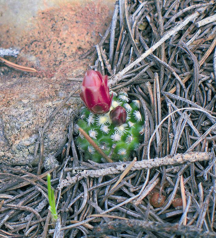 Pediocactus knowltonii